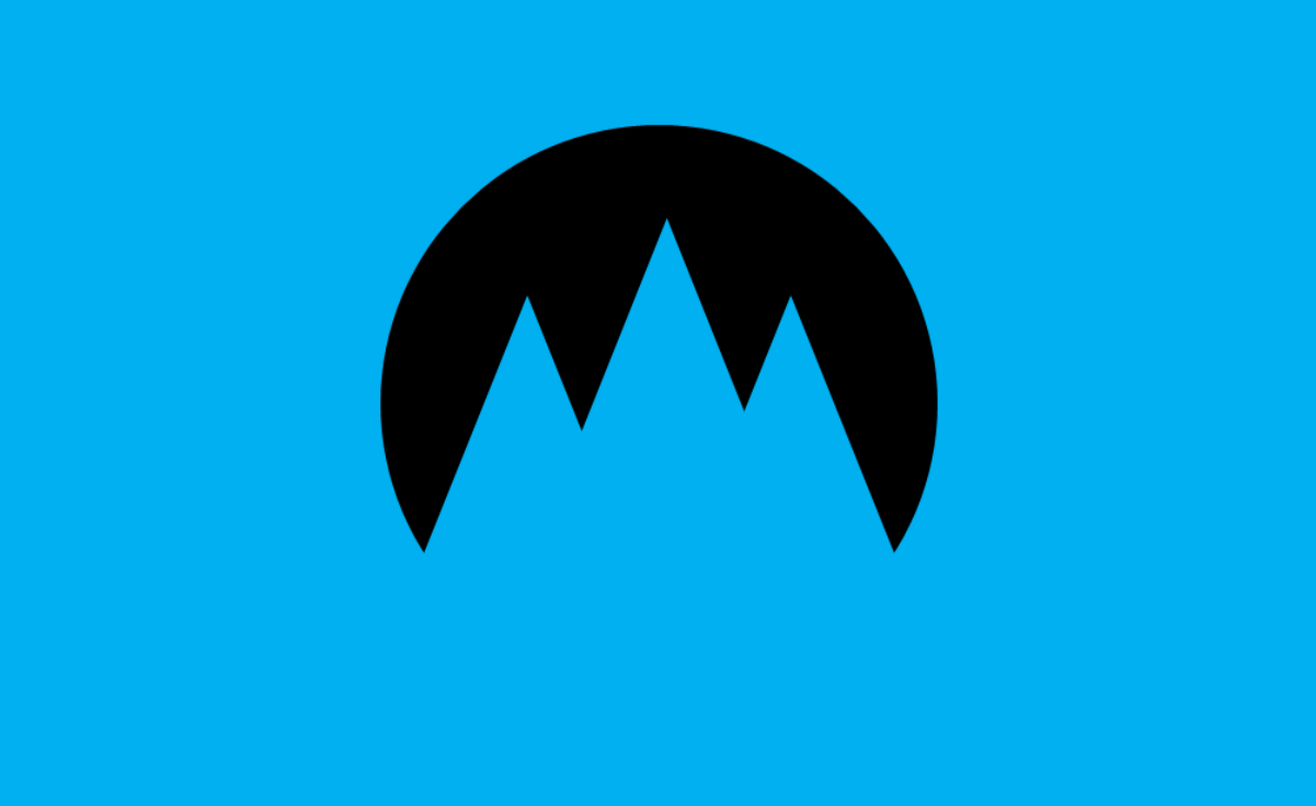 Flag of "Glaciar Republic", a micronation from Chile